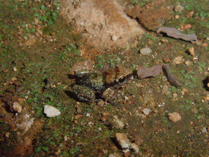 Eleutherodactylus etheridgei